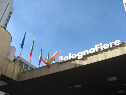 Sign fo the fair building called "Bolognafiere" in the fair district of Bologna, Italy.